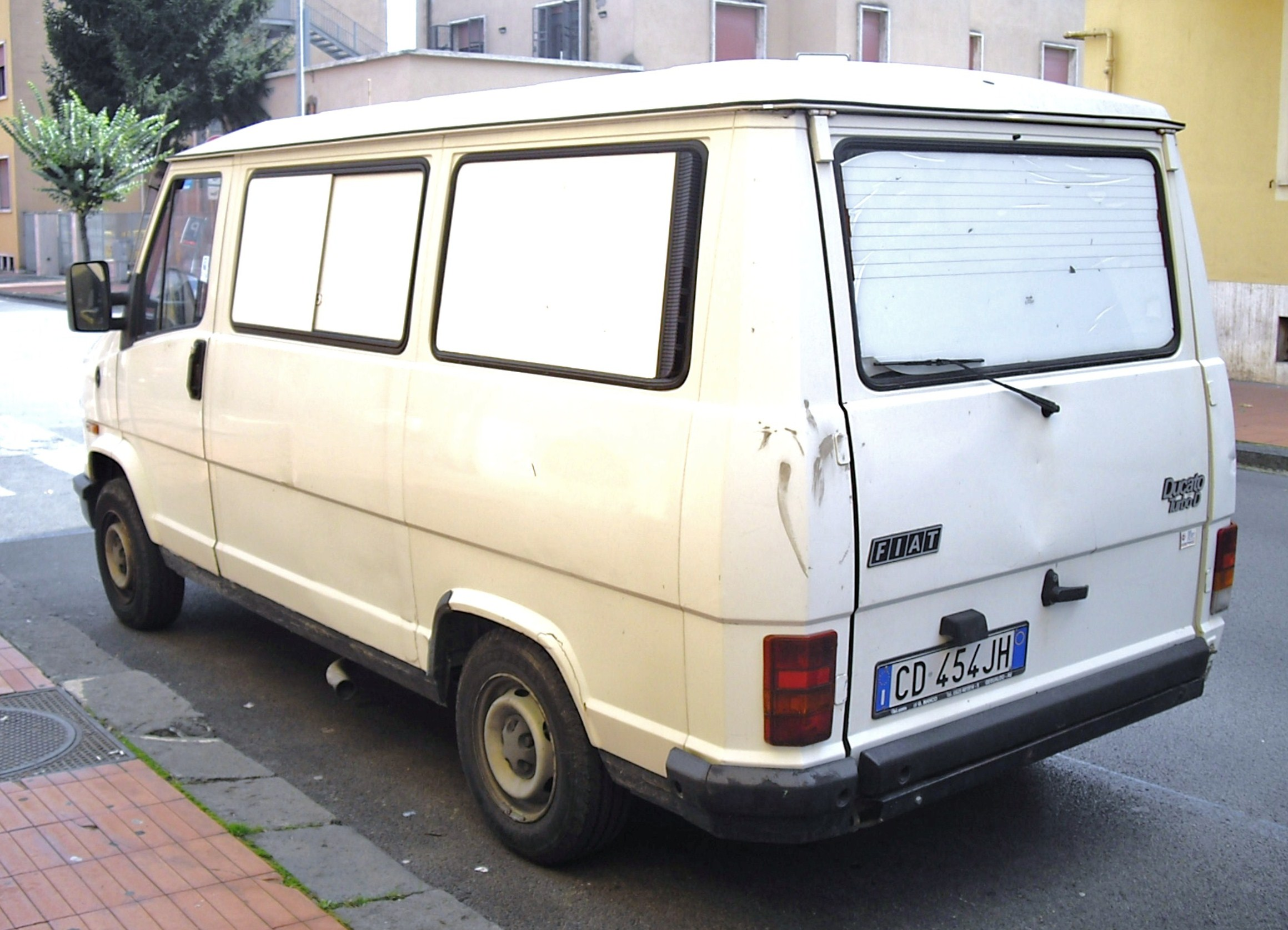 Fiat Ducato Turbo D rear